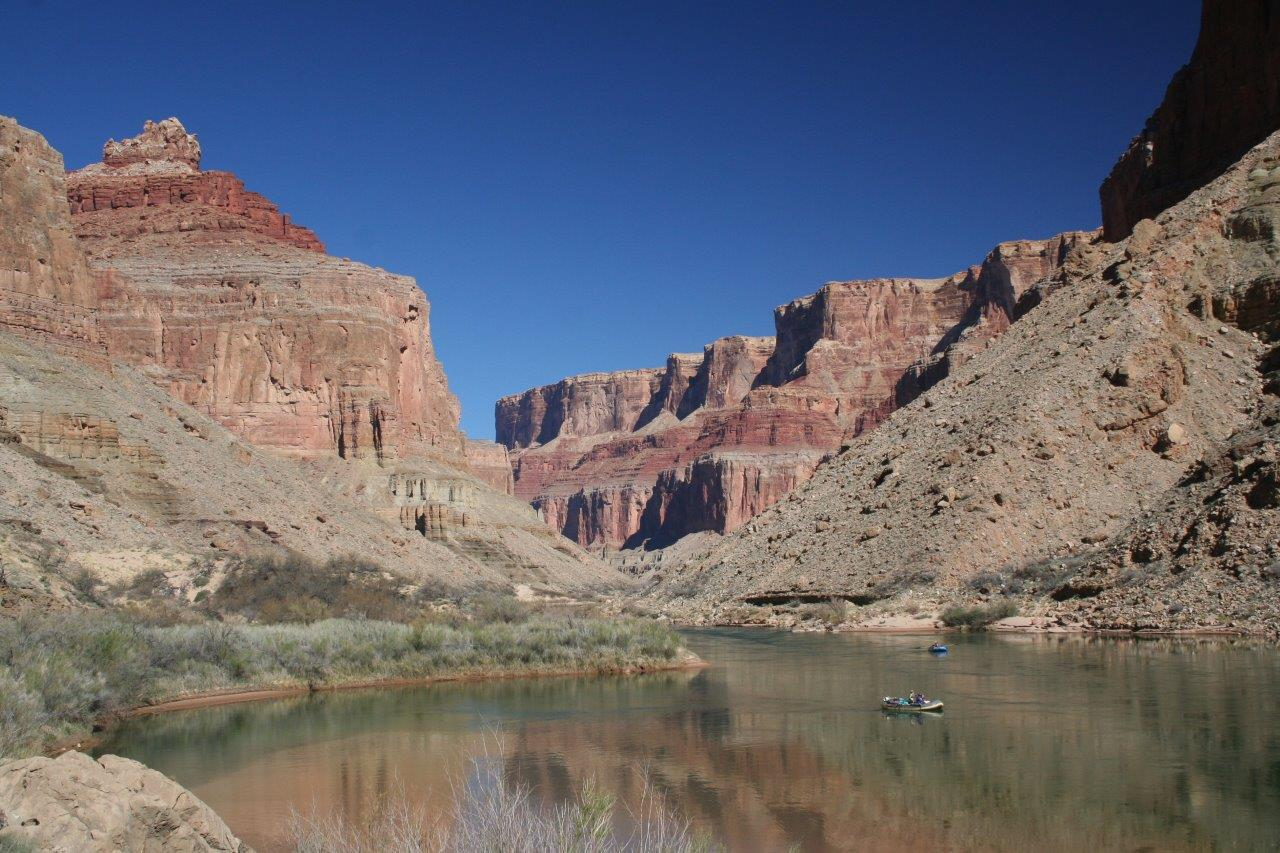 This is an upstream view of the Colorado River in Grand Canyon National Park taken at approximately river Mile 59.0